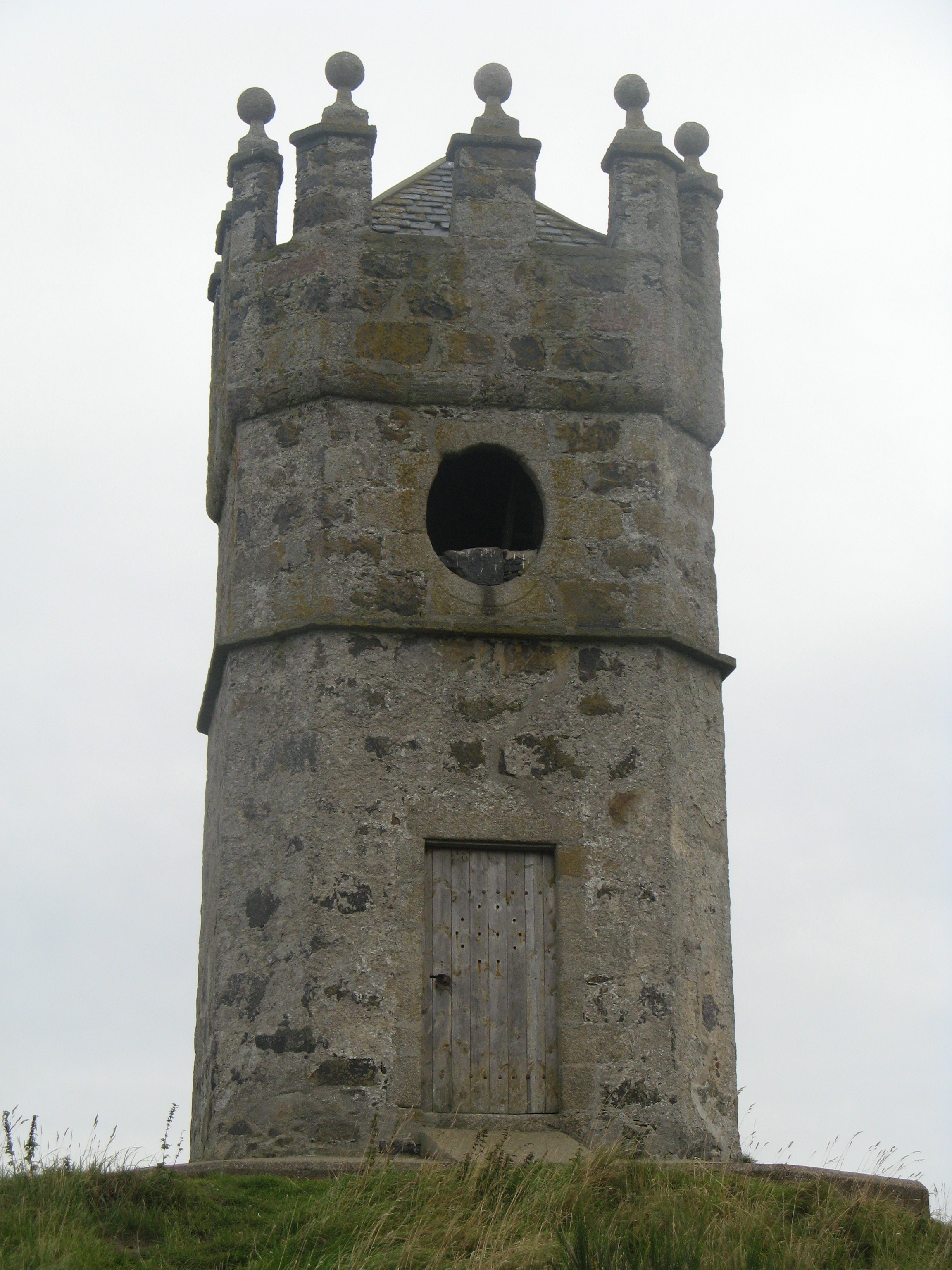 Mounthooley Dovecot, Rosehearty, category A listed building